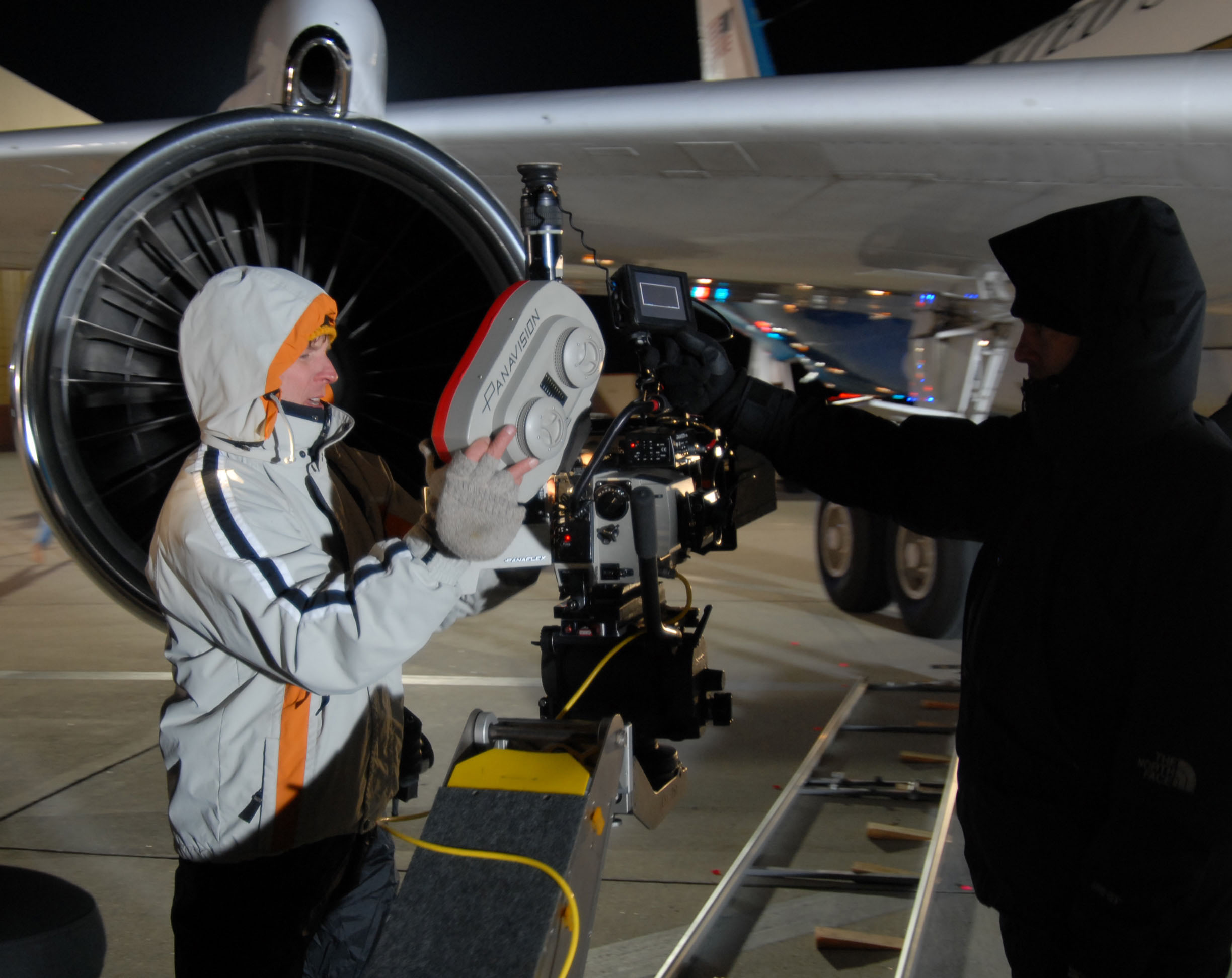 A loader and a camera assistant reload a camera's film between shots on the set of Transformers at Edwards Air Force Base on Feb. 28, 2007. The film's crew returned to Edwards to shoot additional scenes for the movie's July 4 release. The aircraft is a KC-135 known as the "Speckled Trout", which served as a stand-in for Air Force One. See here.